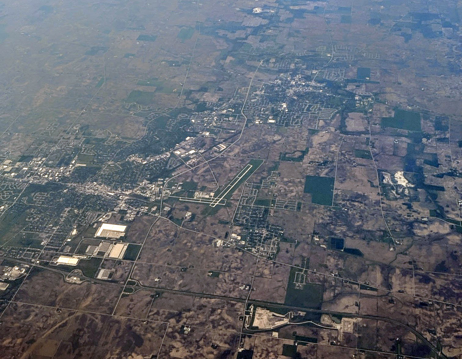 Hazy aerial view from the south of DeKalb, Illinois, and its airport